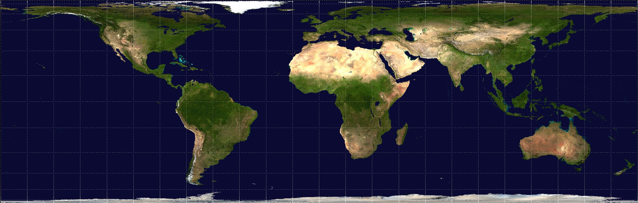 Lambert Cylindrical Equal-area projection of the Earth. Source image is from NASA's Earth Observatory "Blue Marble" series.